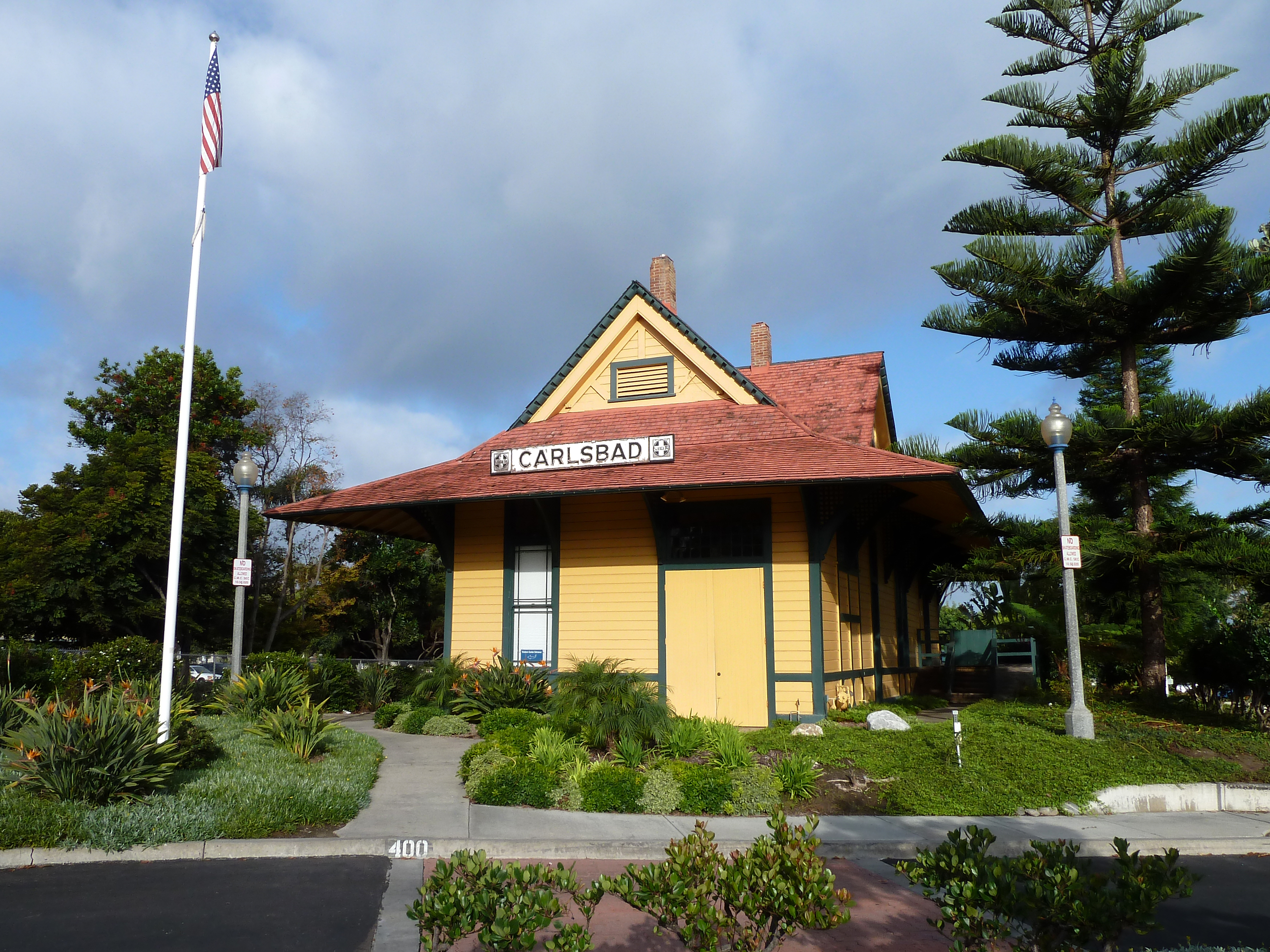 Carlsbad Santa Fe Depot, now home of the city's Visitor's Information Center, Carlsbad, California, USA.